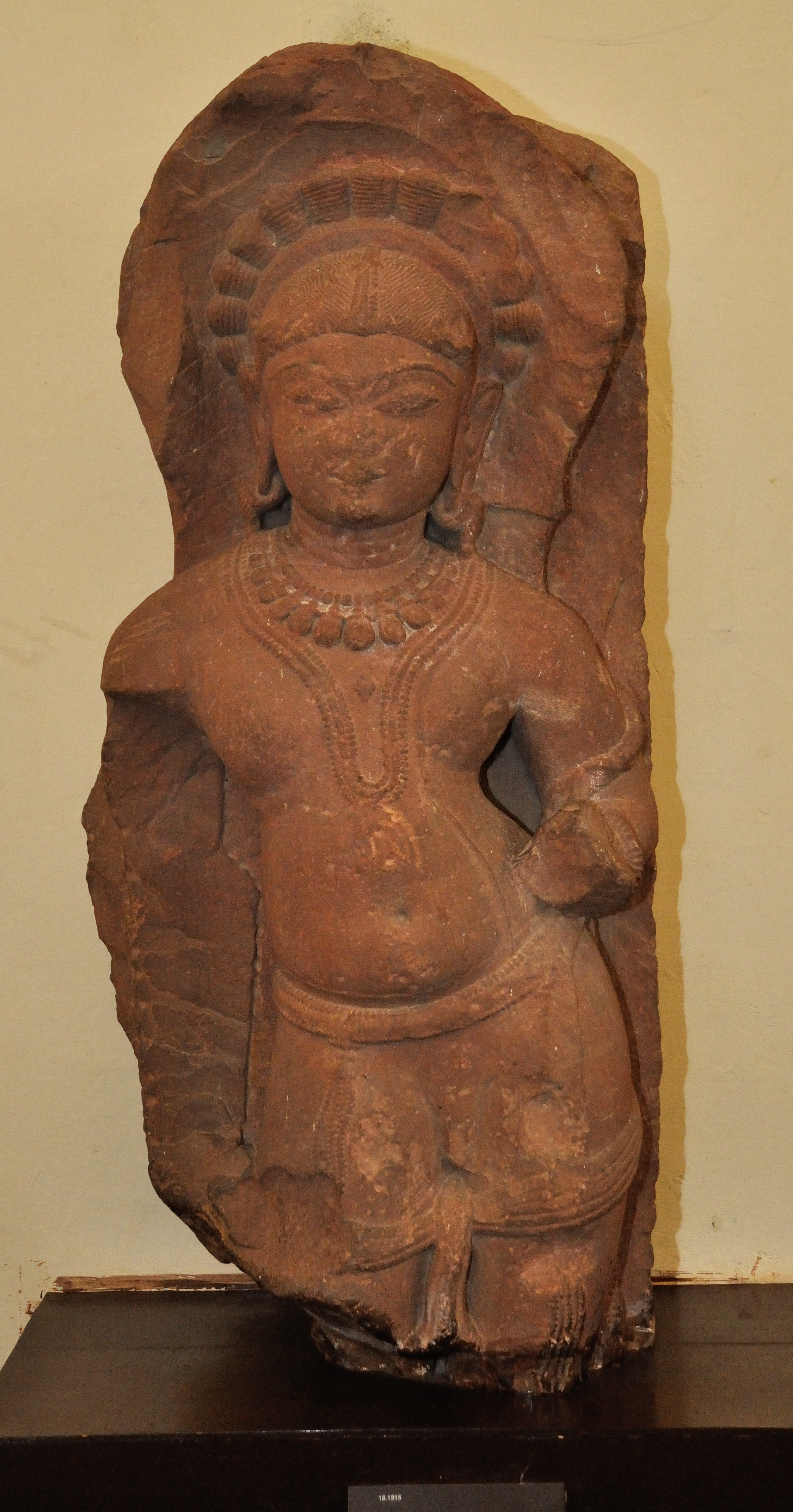 This artefact resides at the Government Museum, (hi: Rashtriya Sangrahalaya) formerly The Curzon Museum of Archaeology, Museum Road or Murari Lal Rajpal road, Dampier Nagar, Mathura, Uttar Pradesh, India. This museum is administrating by the State Government of Uttar Pradesh of India.